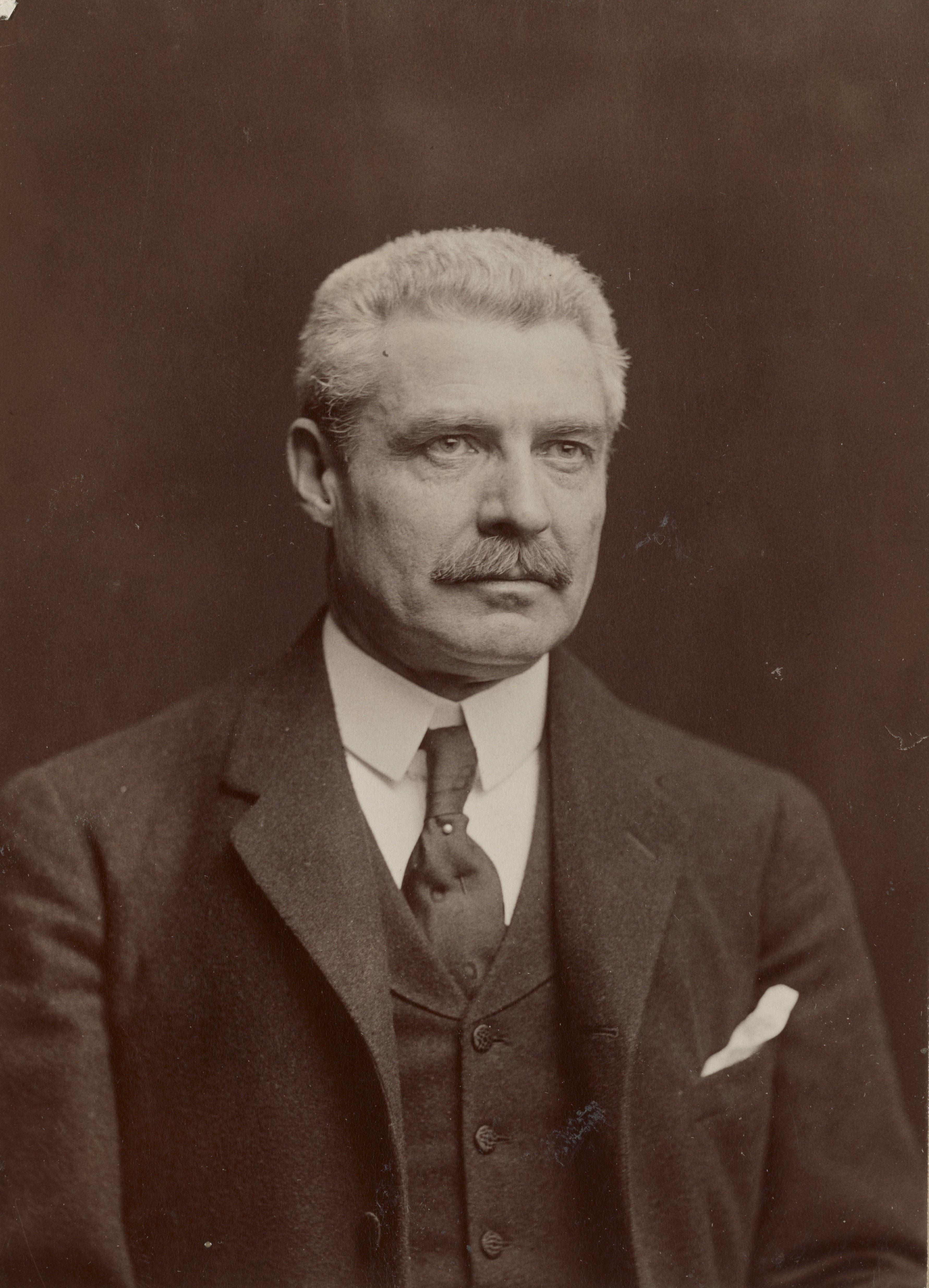 Title: Samuel Rea, engineer and president of the Pennsylvania Railroad Abstract/medium: 1 photographic print.